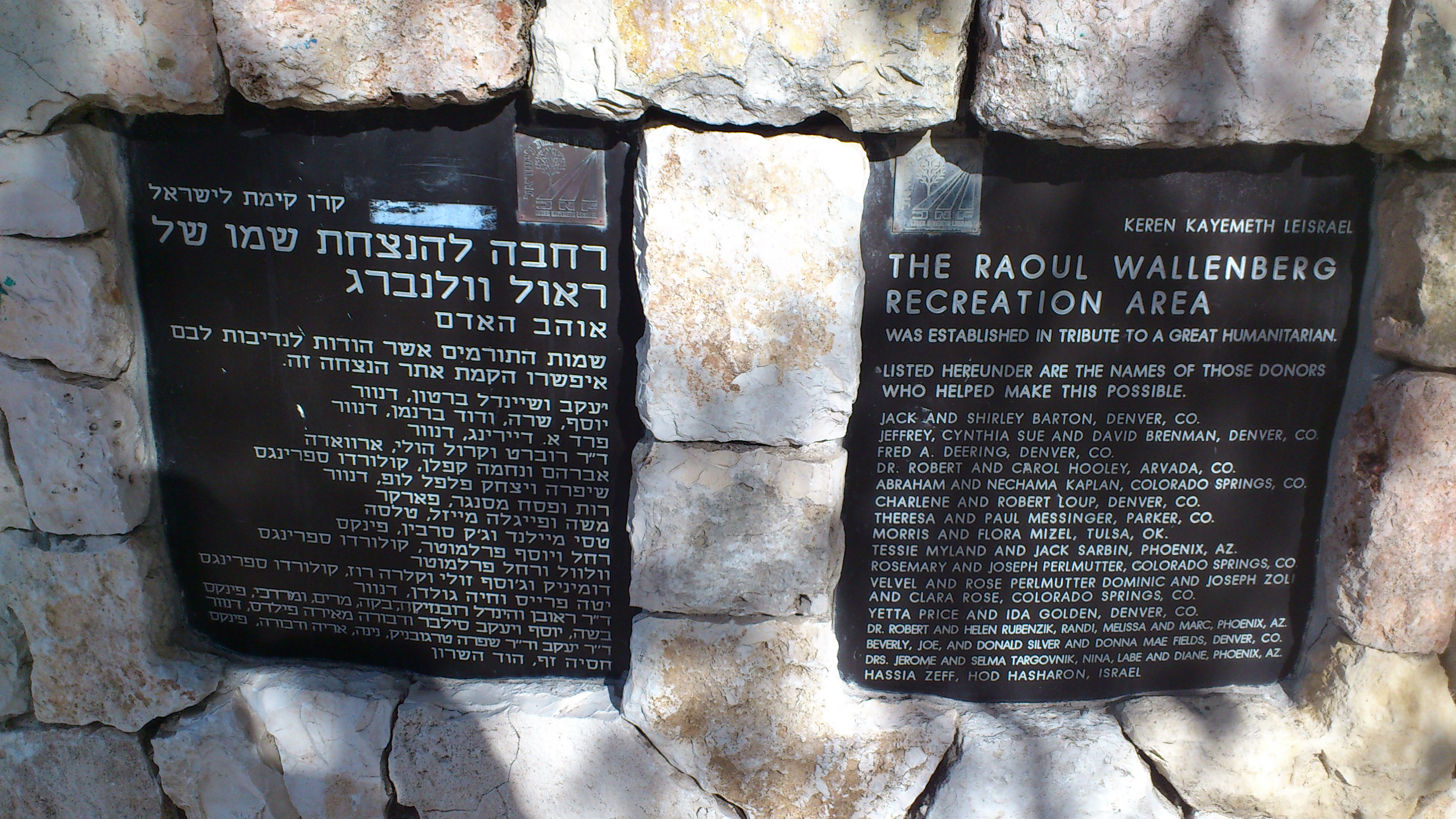 Raoul Wallenberg